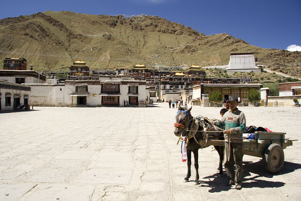 Monastero Tashilhunpo, Shigatse, Tibet